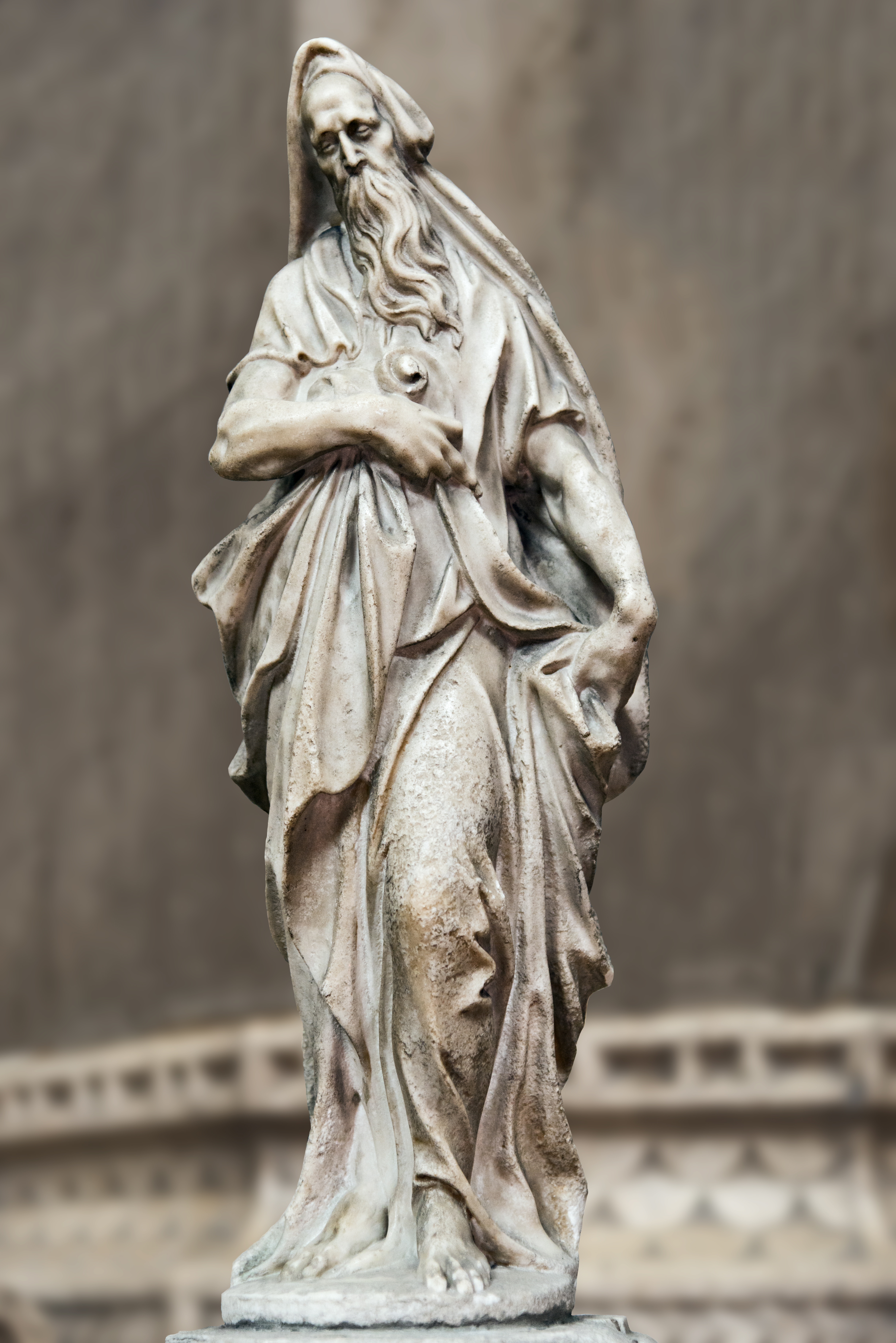 Church of San Zaccaria in Venice. St. Zechariah by Alessandro Vittoria (1543).